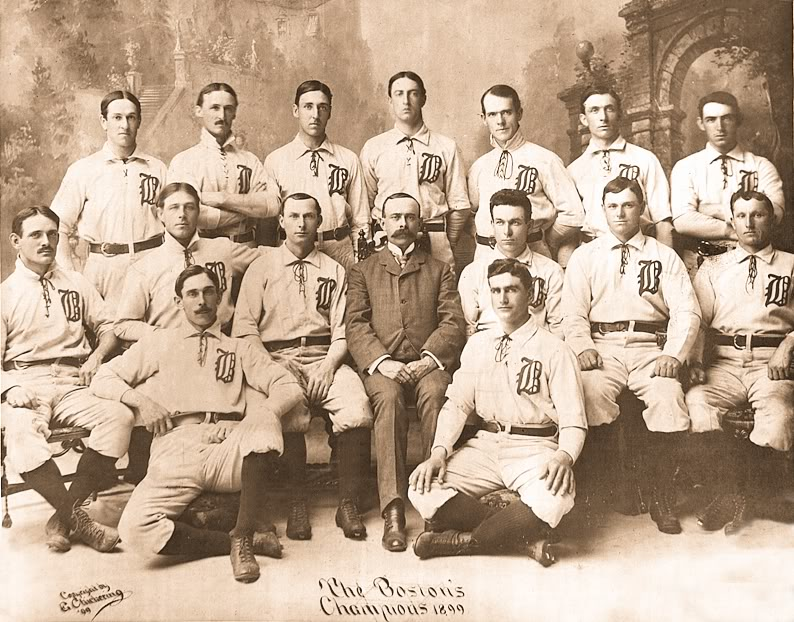 Team photo of the 1899 Boston BeaneatersTop row (L-R): Charles 'Kid' Nichols (P), Bill Clarke, Frank Killen (P), Vic Willis (P), Marty Bergen (C), Ted Lewis (P), Charlie Hickman (P)Center row (L-R): Fred Tenney (1B), Jimmy Collins (3B), Jim 'General' Stafford (CF), Frank Selee (Mgr.), Hugh Duffy (RF), Billy Hamilton (CF), Herman Long (SS)Bottom row (L-R): Bobby Lowe (2B), Charles 'Chick' Stahl (RF)